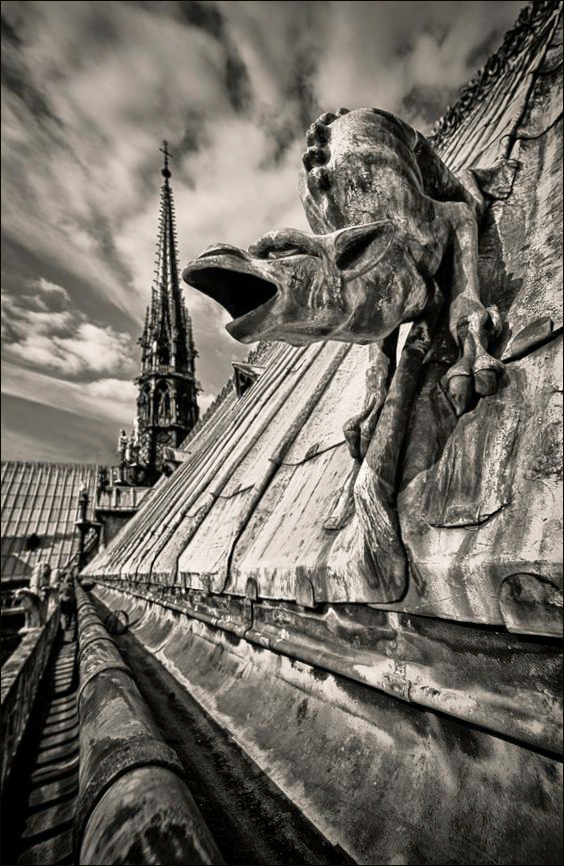 Gargoyle and lead covering.